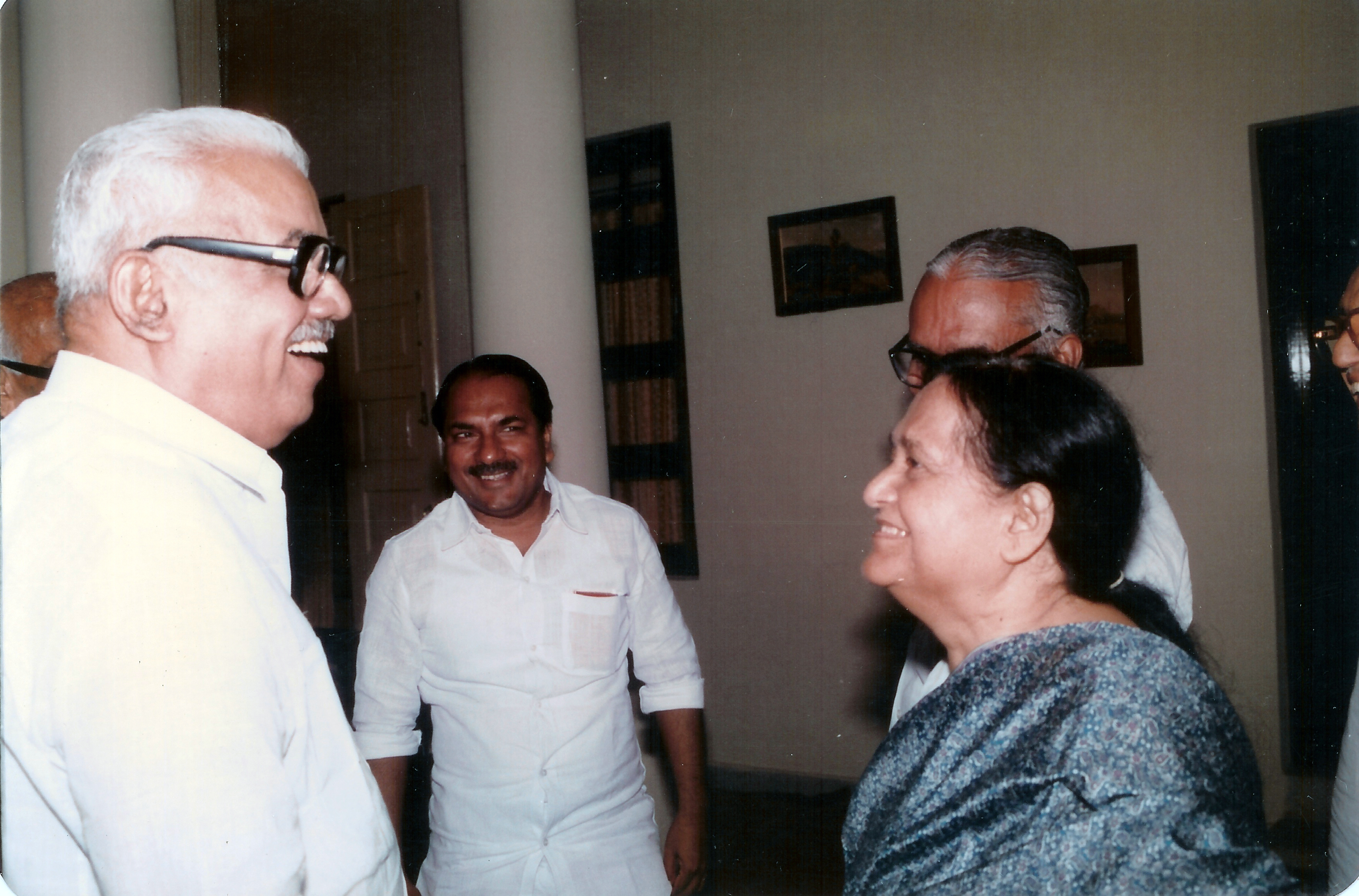 Governor of Kerala Ram Dulari Sinha (right) seen here with the Leaders of the state of Kerala. Also seen here in the image is A. K. Antony (center).